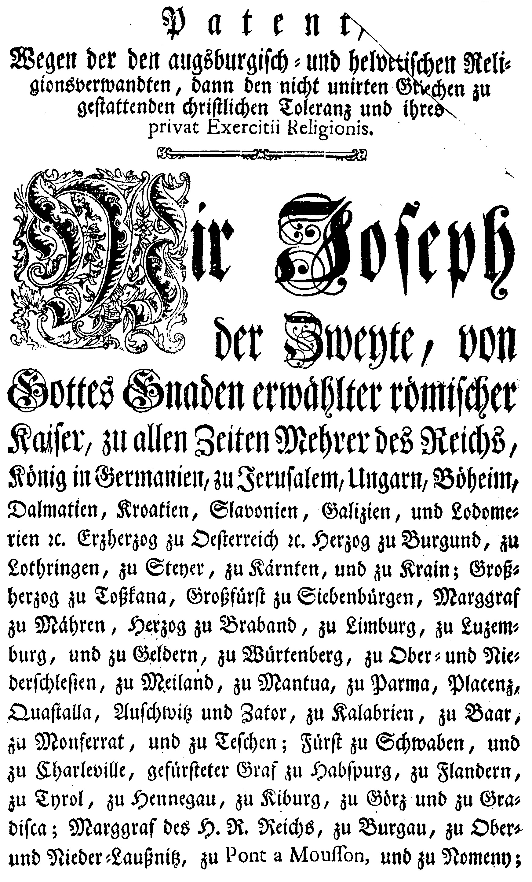 Patent of Toleration, front page top: Patent, Wegen der den augsburgisch und helvetischen Religionsverwandten, dann den nicht unirten Griechen zu gestattenden christlichen Toleranz und ihres privat excertii Religionis. ["Patent aimed at the members of the Lutheran and Calvinist confession, as well as orthodox Greeks, which tolerates their religion, and gives them the right to privately exercise it.]